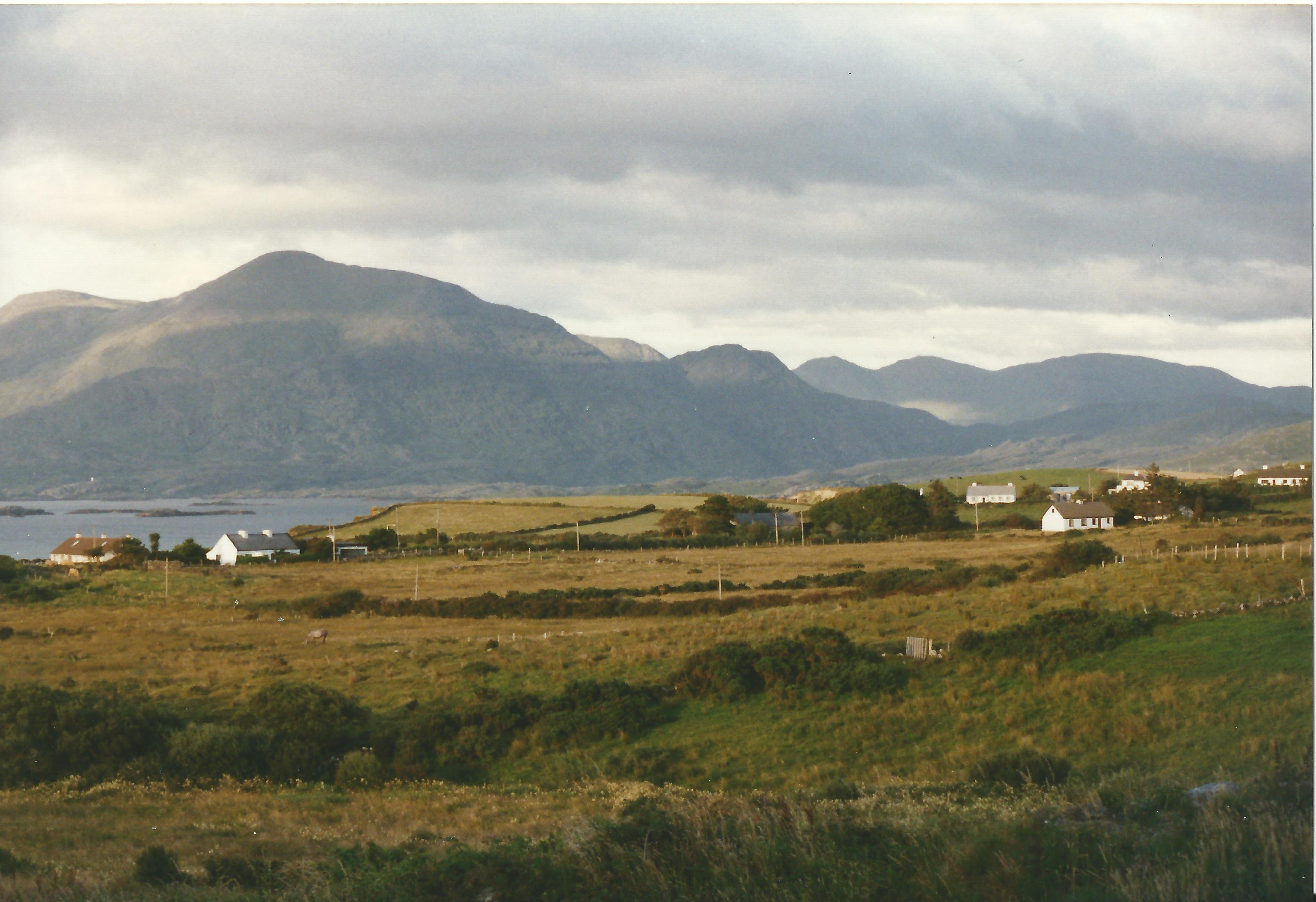 From Renvyle, Connemara, County Galway, Ireland, July 1997